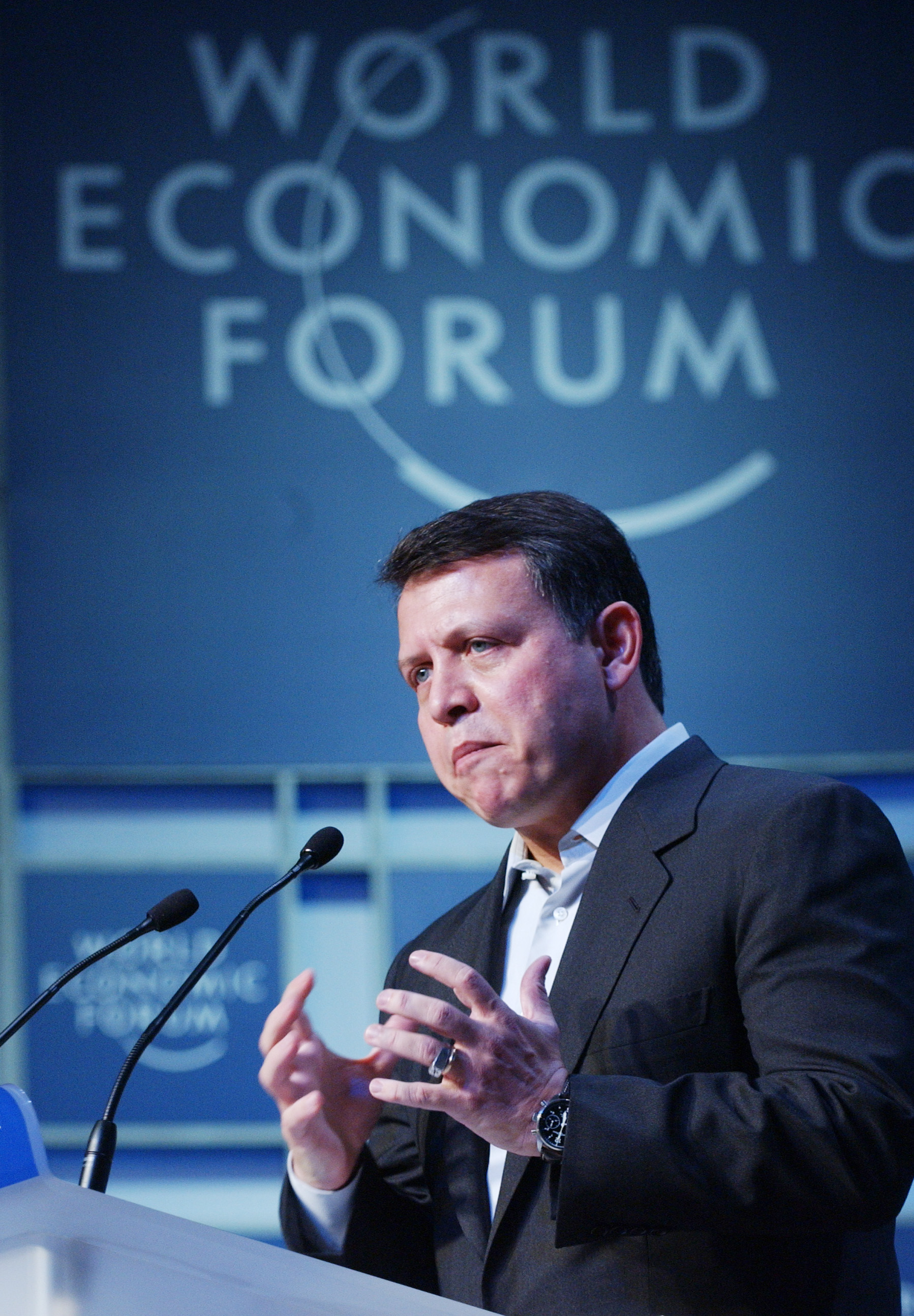 DAVOS/SWITZERLAND, 23JAN04 - H.M. King Abdullah II Ibn Hussein of the Hashemite Kingdom of Jordan, delivers a speech during the session 'Special Address by the King of Jordan' at the Annual Meeting 2004 of the World Economic Forum in Davos, Switzerland, January 23, 2004.